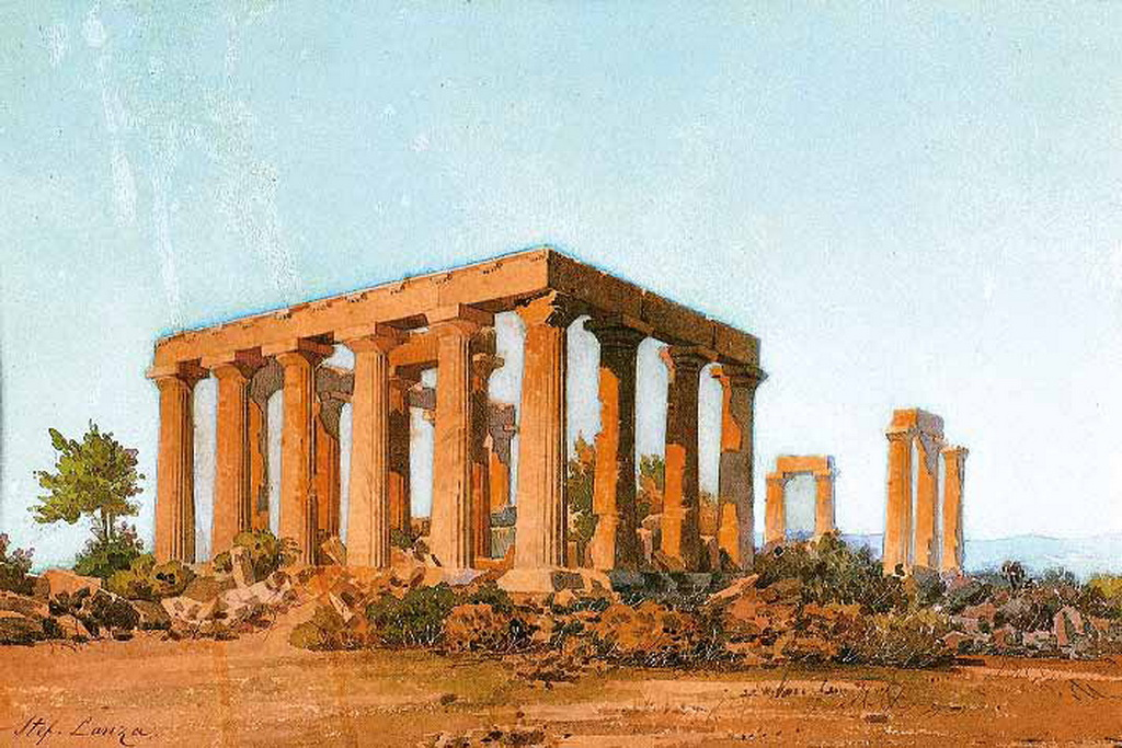 Temple of Aphaea